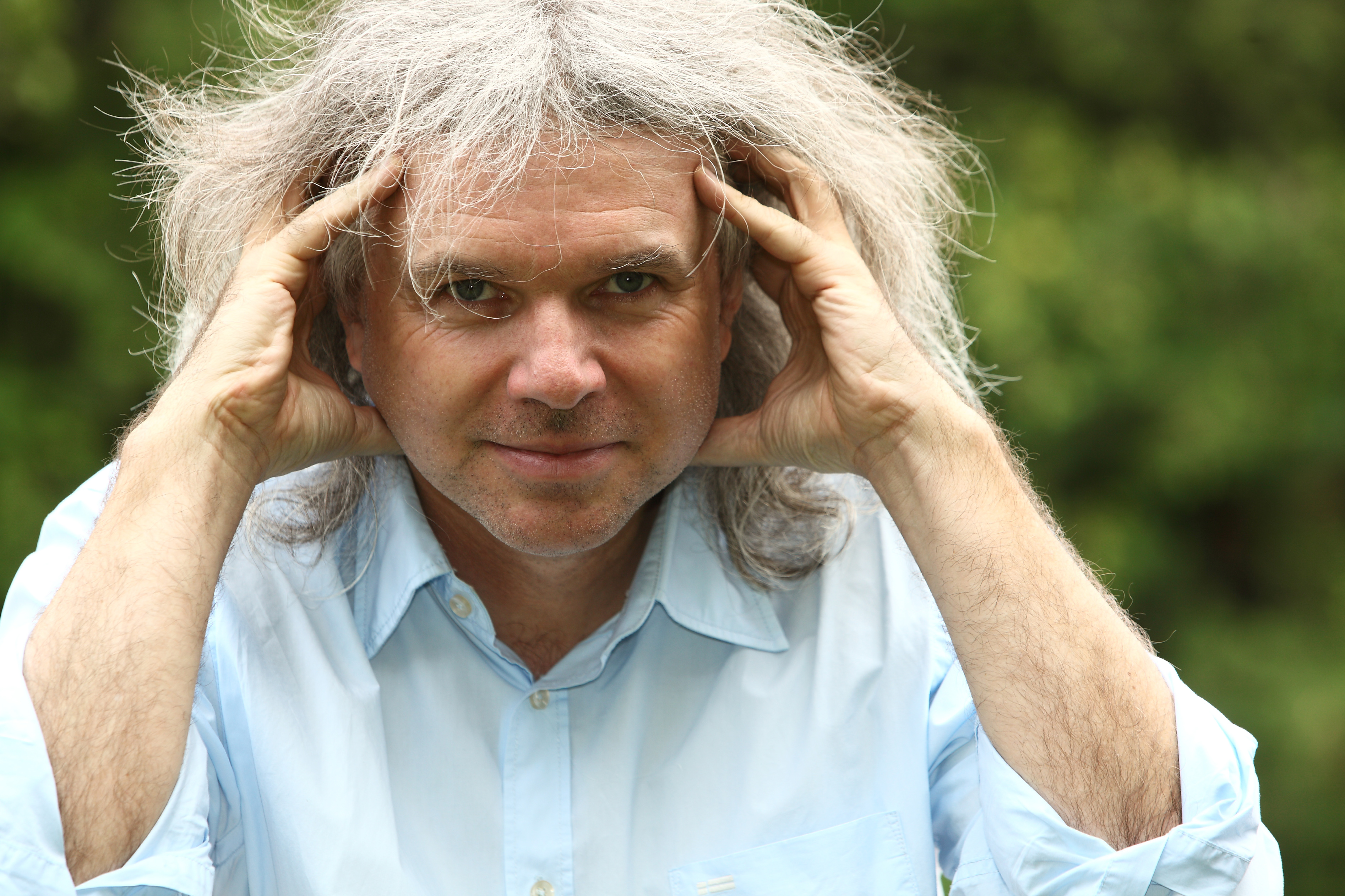 Ivan Fila, 2010